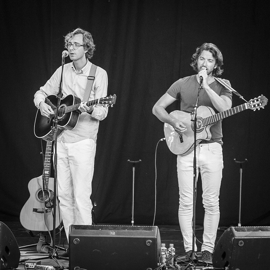 Kings of Convenience performs at Piknik i Parken in Oslo on 25. June 2016. Lineup:Eirik Glambek Bøe (guitar / vocal)Erlend Øye (guitar / vocal)